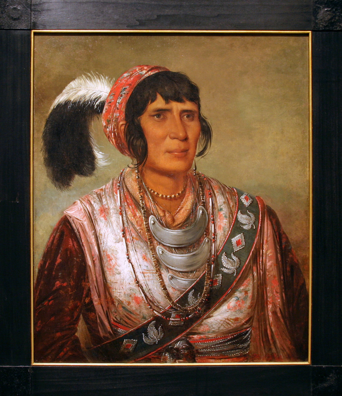 Oil on canvas portrait of Osceola (Os-ce-o-lá, "The Black Drink", a Seminole chief); original size without frame 78.4×65.6 cm.